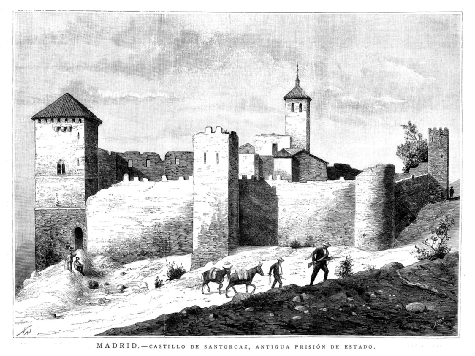 Santorcaz Castle in 19th cent. Community of Madrid, Spain